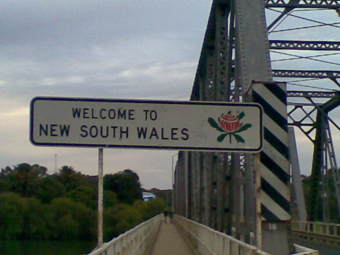 The sign advising traffic they have just entered New South Wales in Mulwala, New South Wales. The flower on the sign is the state floral emblem.